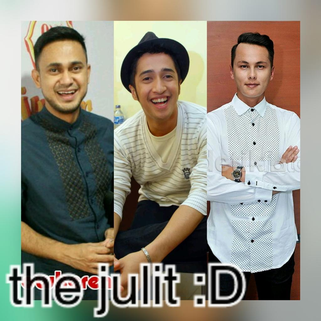 Trio Julit